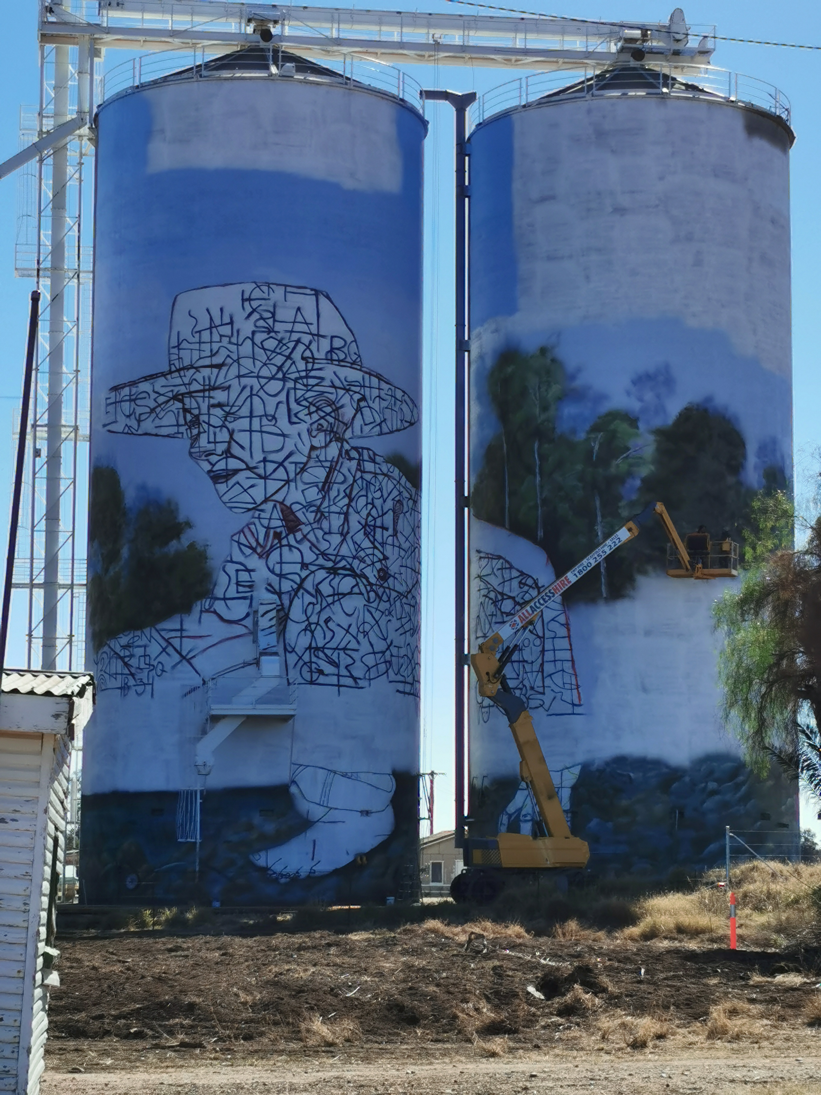 Painting the Yelarbon silos, 7 June 2019